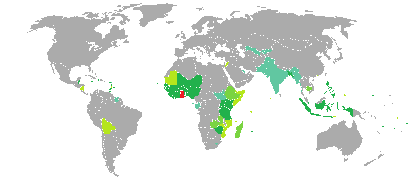 Visa requirements for Ghanaian citizens Ghana Visa free access Visa on arrival eVisa Visa available both on arrival or online Visa required